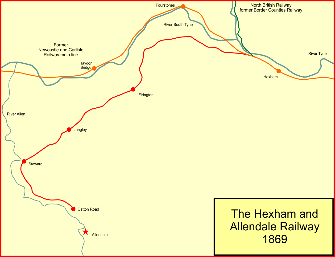 System map of the Hexham and Allendale Railway, Northumberland, England